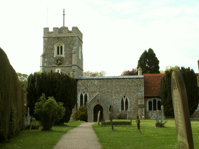 St. Mary: the parish church of Graveley